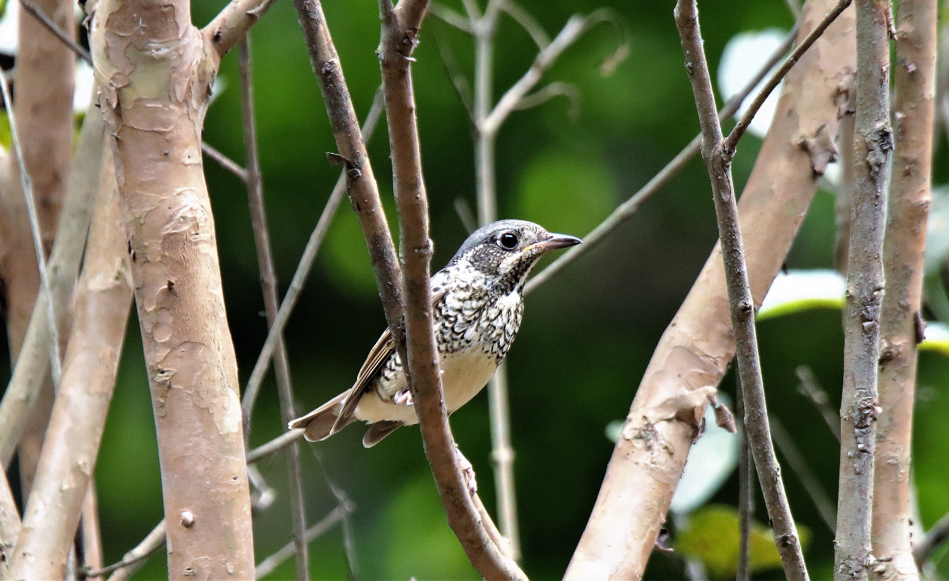 White-throated Rock Thrush Monticola gularis, female